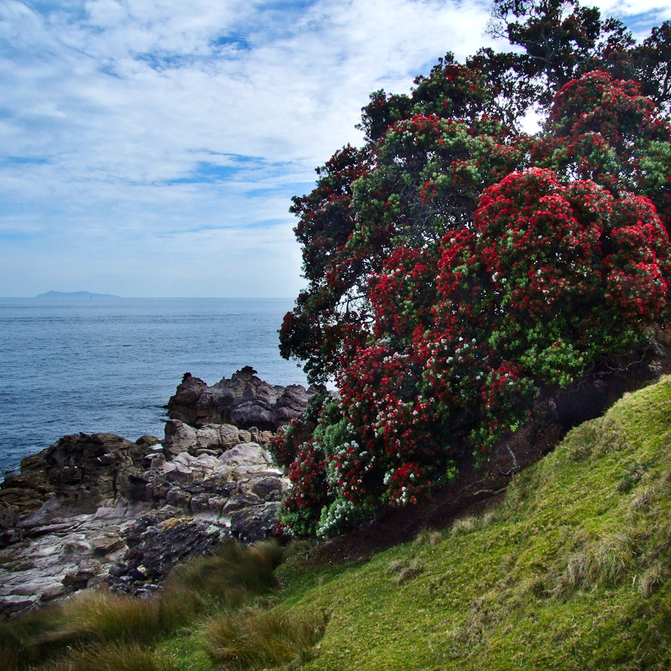 On of the edges of Mt. Maunganui, with a Pohutukawa hanging over the rock pools.